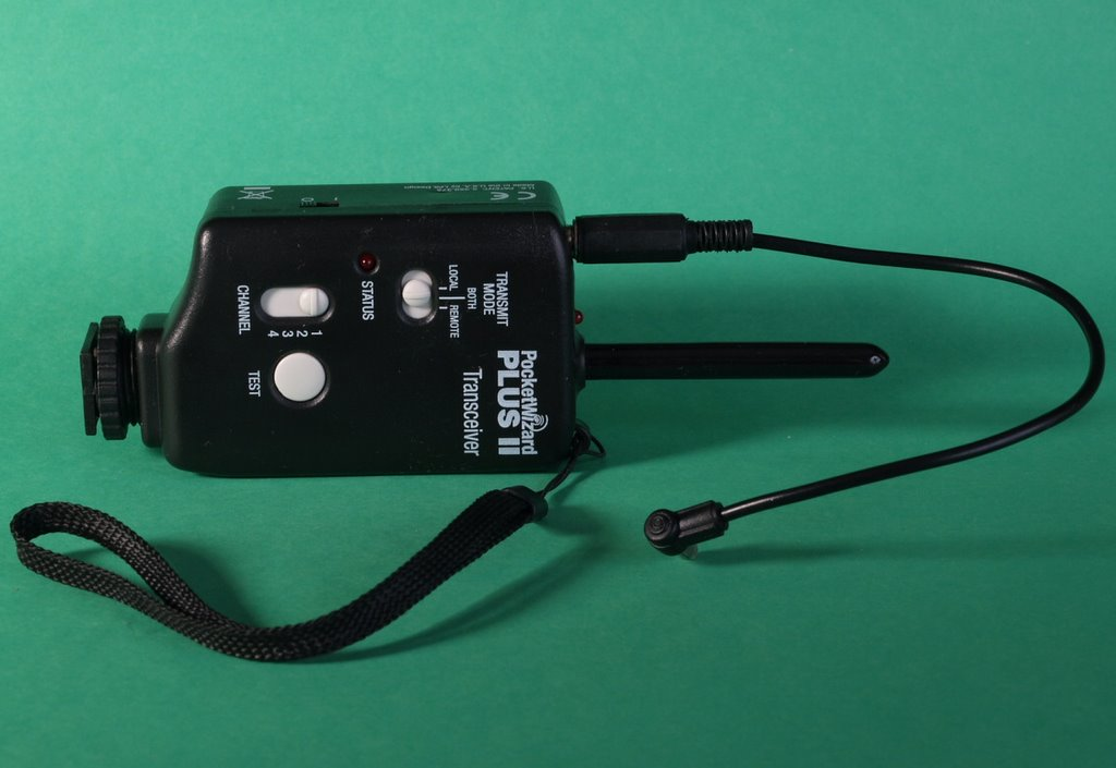 remote flash trigger (radio)